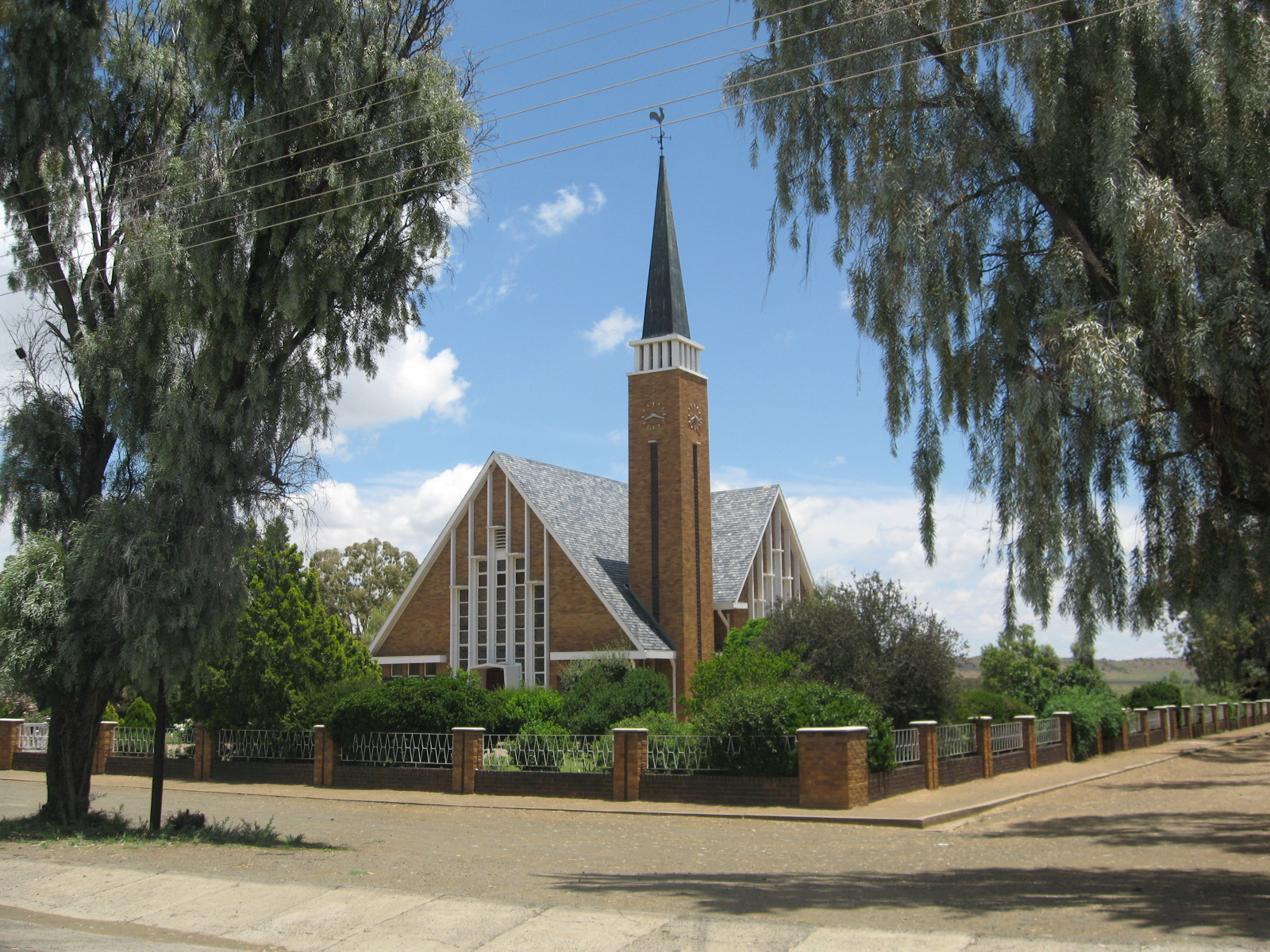 Hobhouse